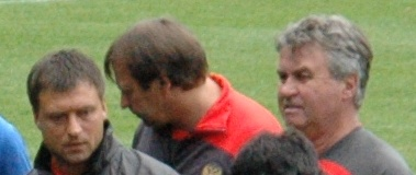 Igor Korneev, Alexander Borodyuk and Guus Hiddink during Euro 2008